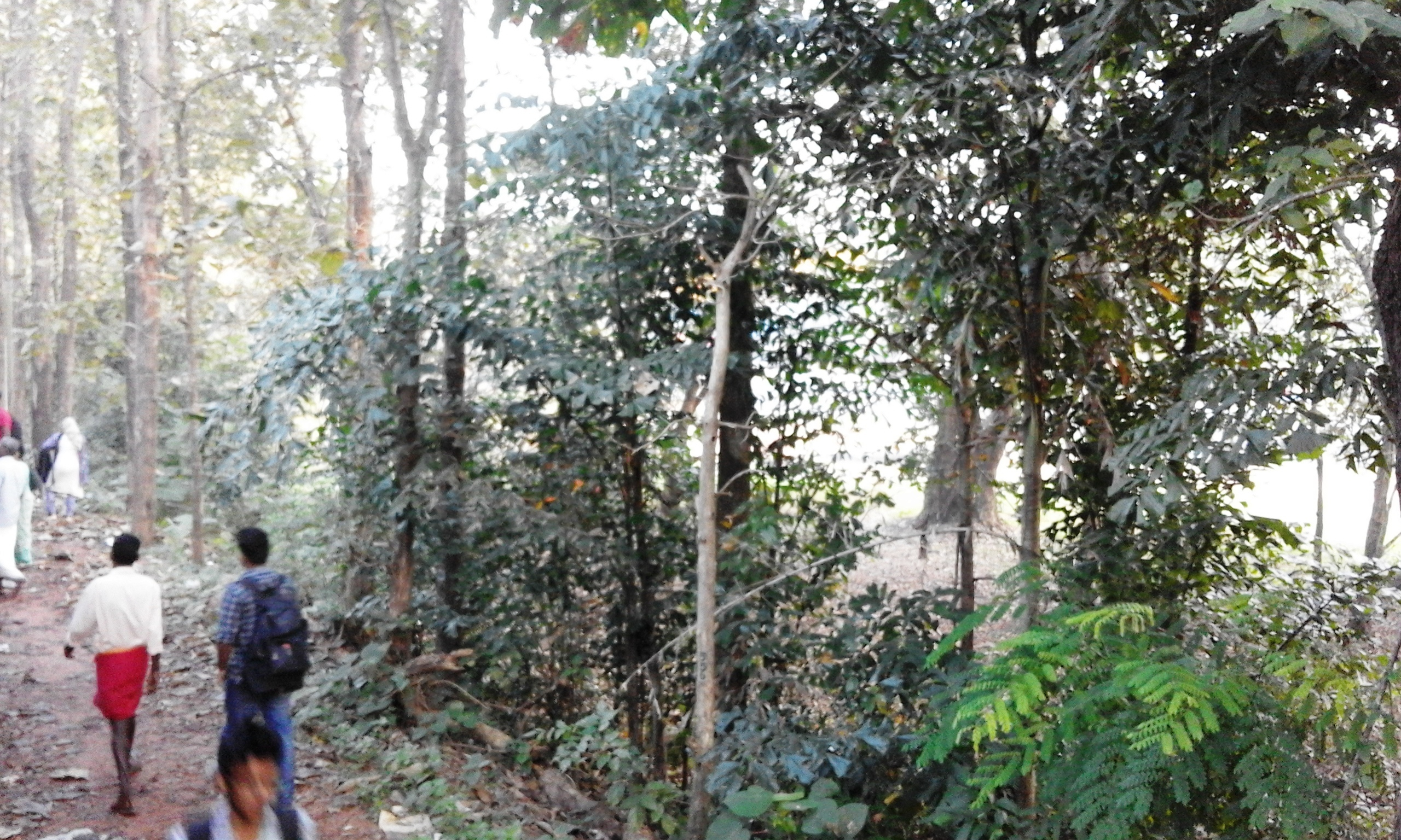 Vaniyambalam, Nilambur, Malappuram District, India.